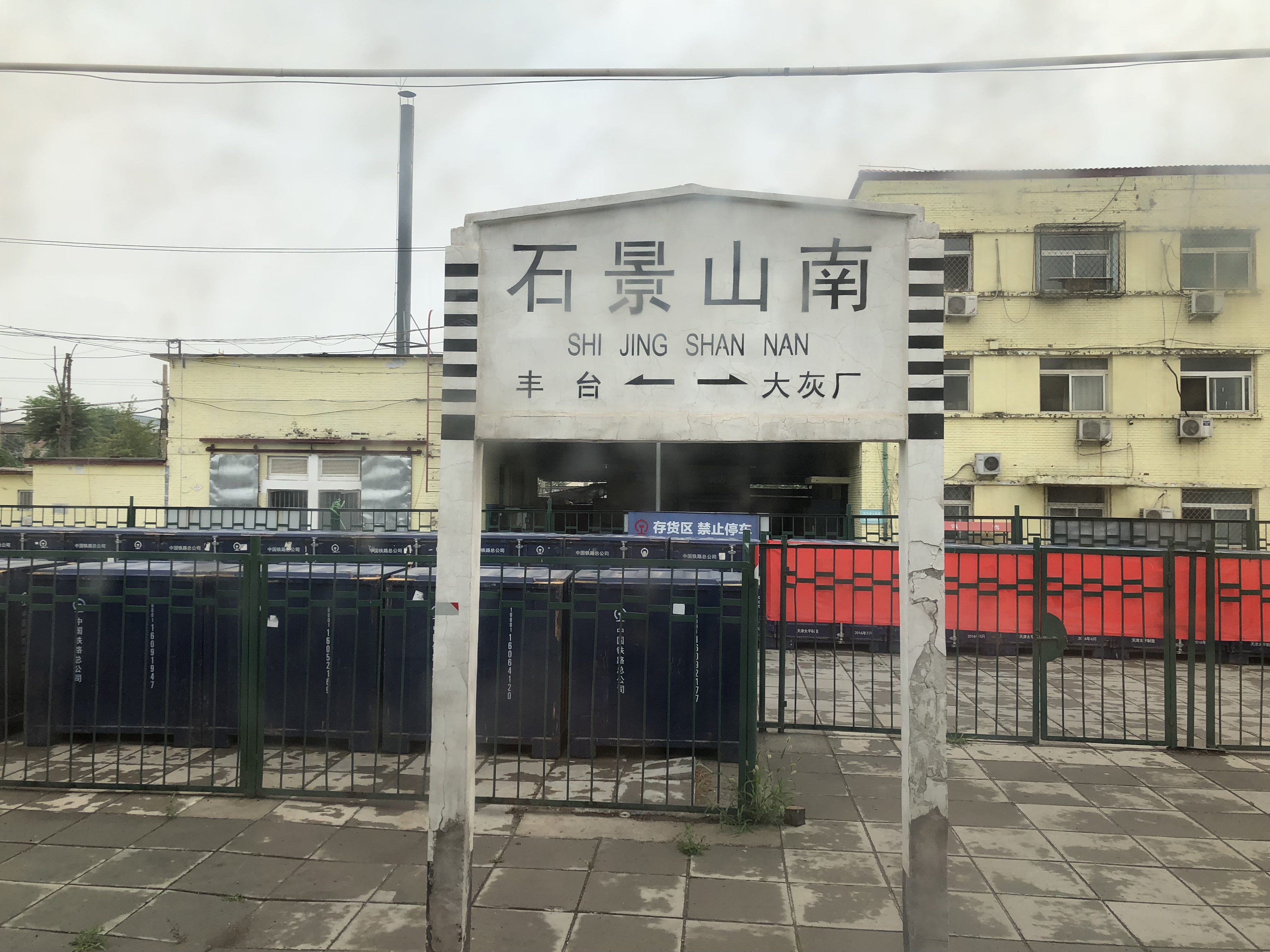 Sign of Shijingshannan Railway Station